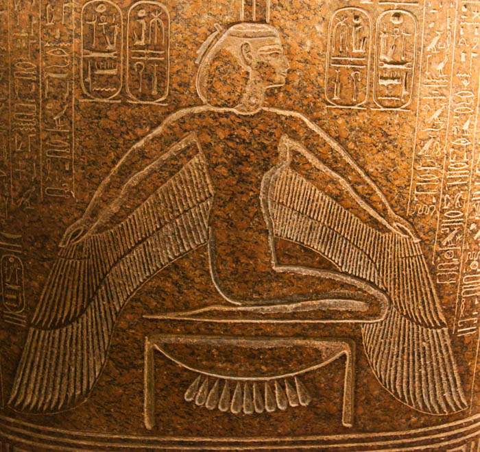 Still groggy from jet lag I took on the Louvre - not an easy task - this world class museum is huge - and then some - it seems to go on forever. I am so glad I'm not blond because it is very hard to navigate and it's easy to get lost. Despite that, the history, sculptures, and art pieces are incredible. If you have the chance this is definitely worth checking out! I took these photos in January 2013.